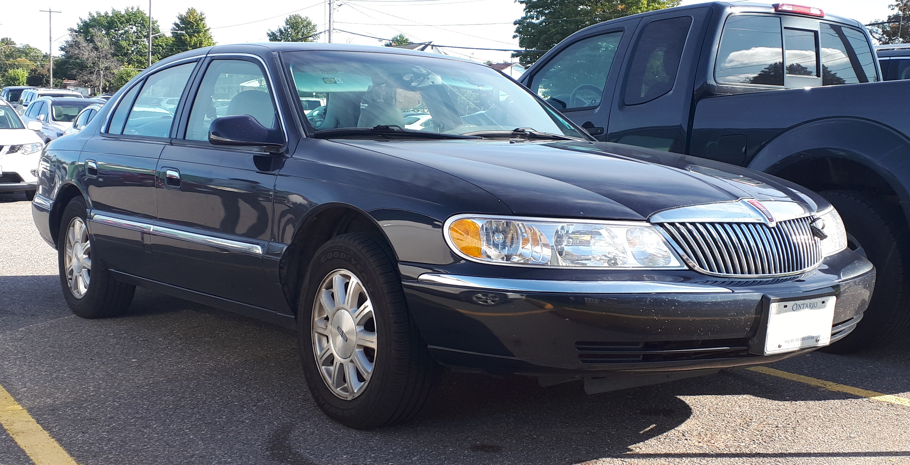 1998-2002 Lincoln Continental photographed in Sault Ste. Marie, Ontario, Canada